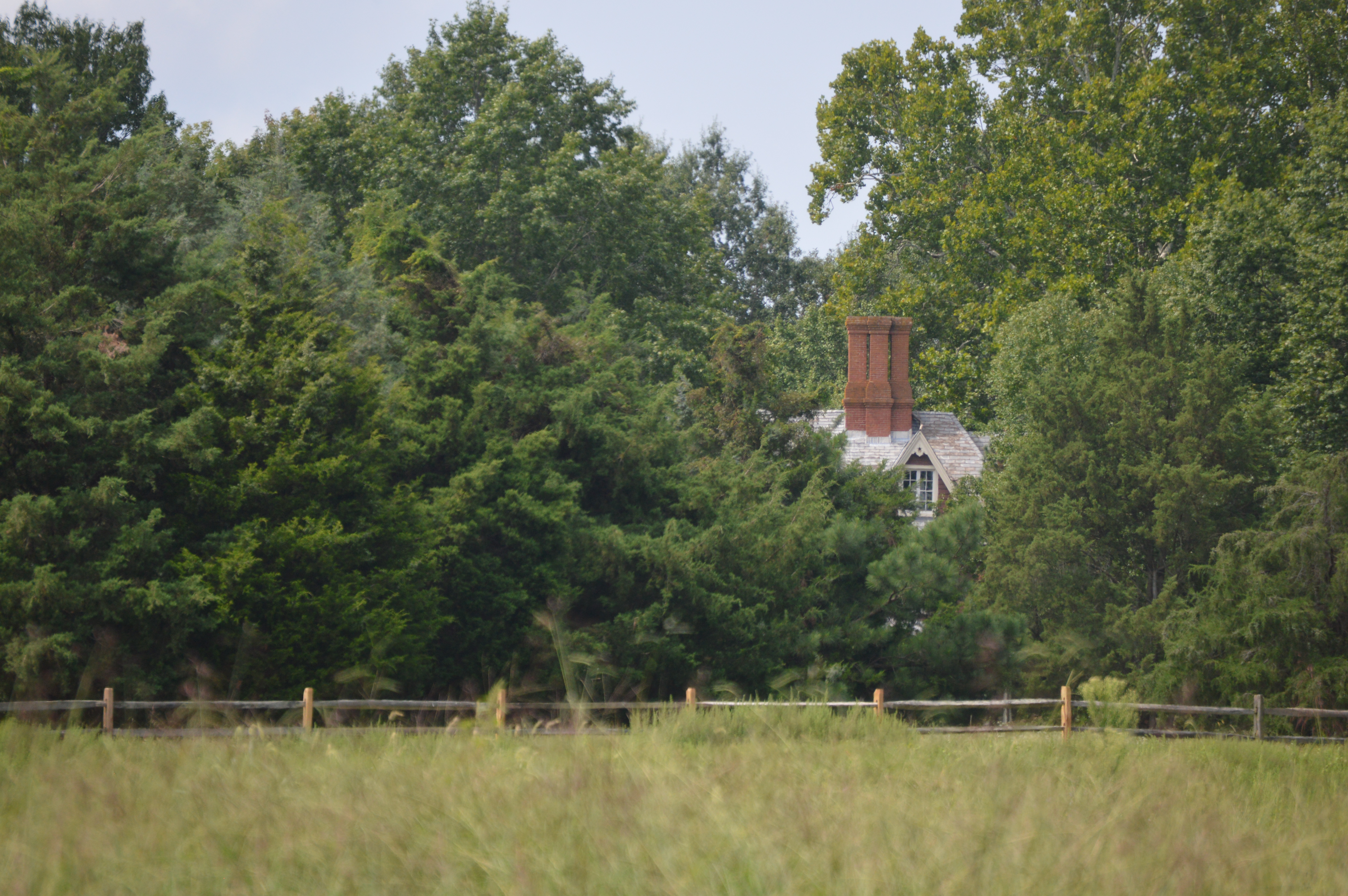 Through-the-trees view of Roxbury, located on Leedstown Road south of Oak Grove in Westmoreland County, Virginia, United States. Built in 1861, it is listed on the National Register of Historic Places.